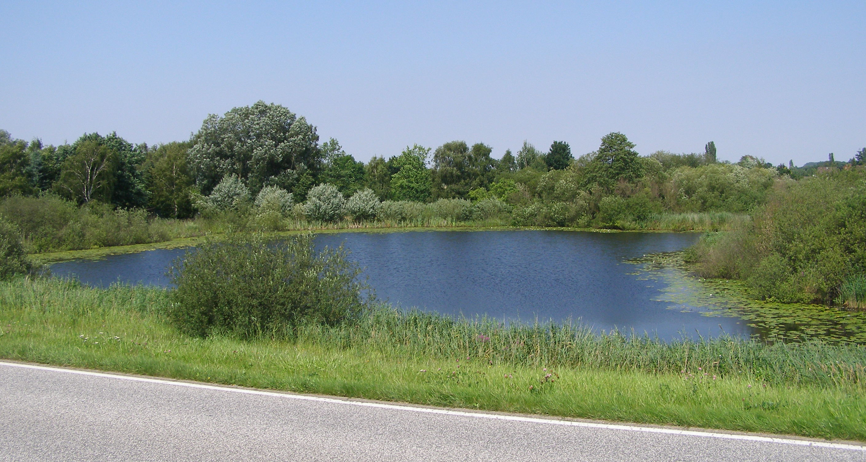 The Carlsbrack is a kolk in the Zollenspieker nature reserve.